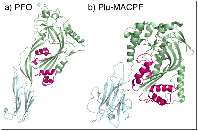 Side by side of PFO and Plu-MACPF PDB: 1PFO, 2QP2​